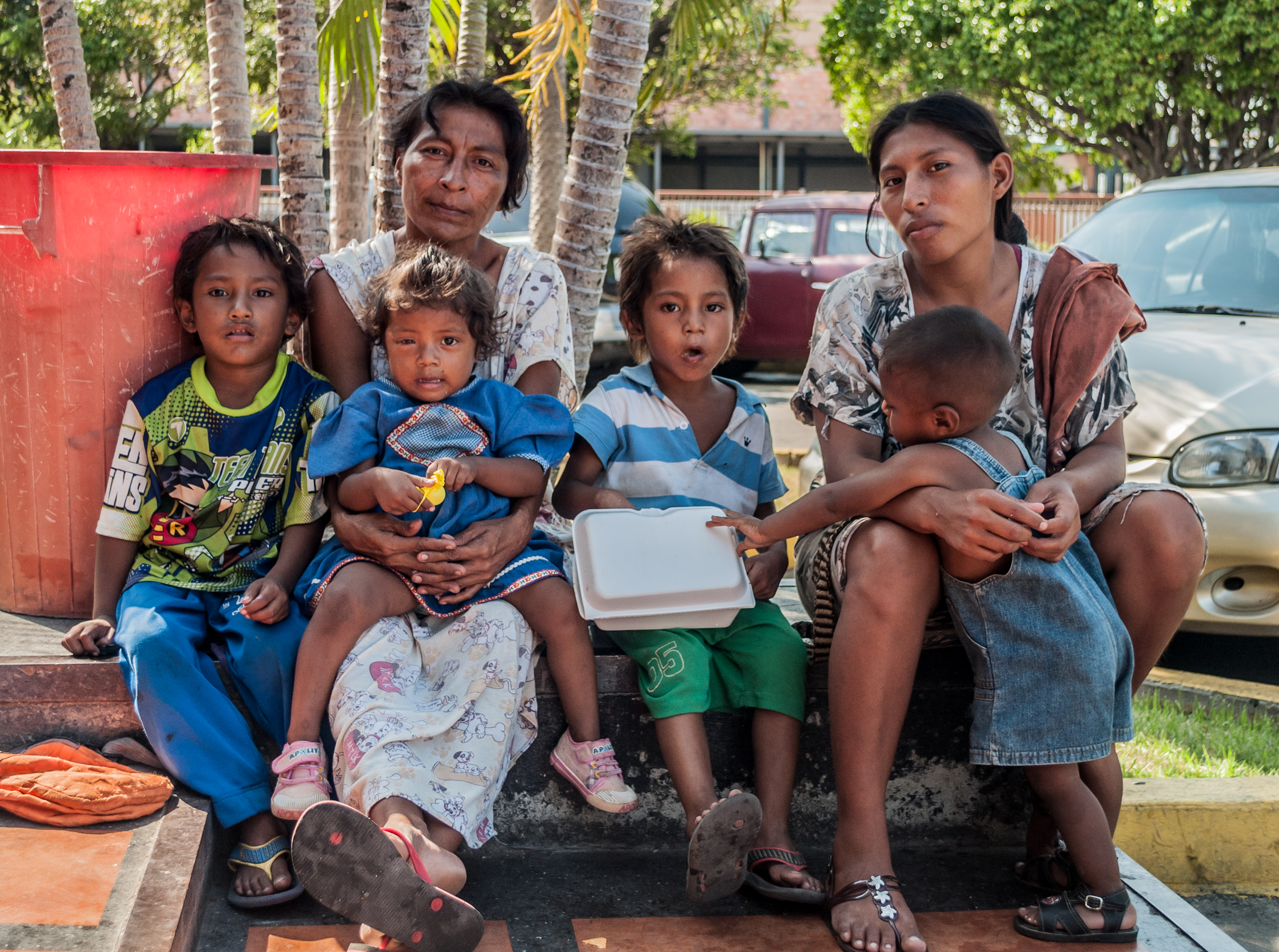 This is a common Wayuu family in a matriarchy society, women go out to beg for money or food in the city of Maracaibo, Venezuela. A city marked by racism where the first indigenous people have no access to resources and basic food stall[1].